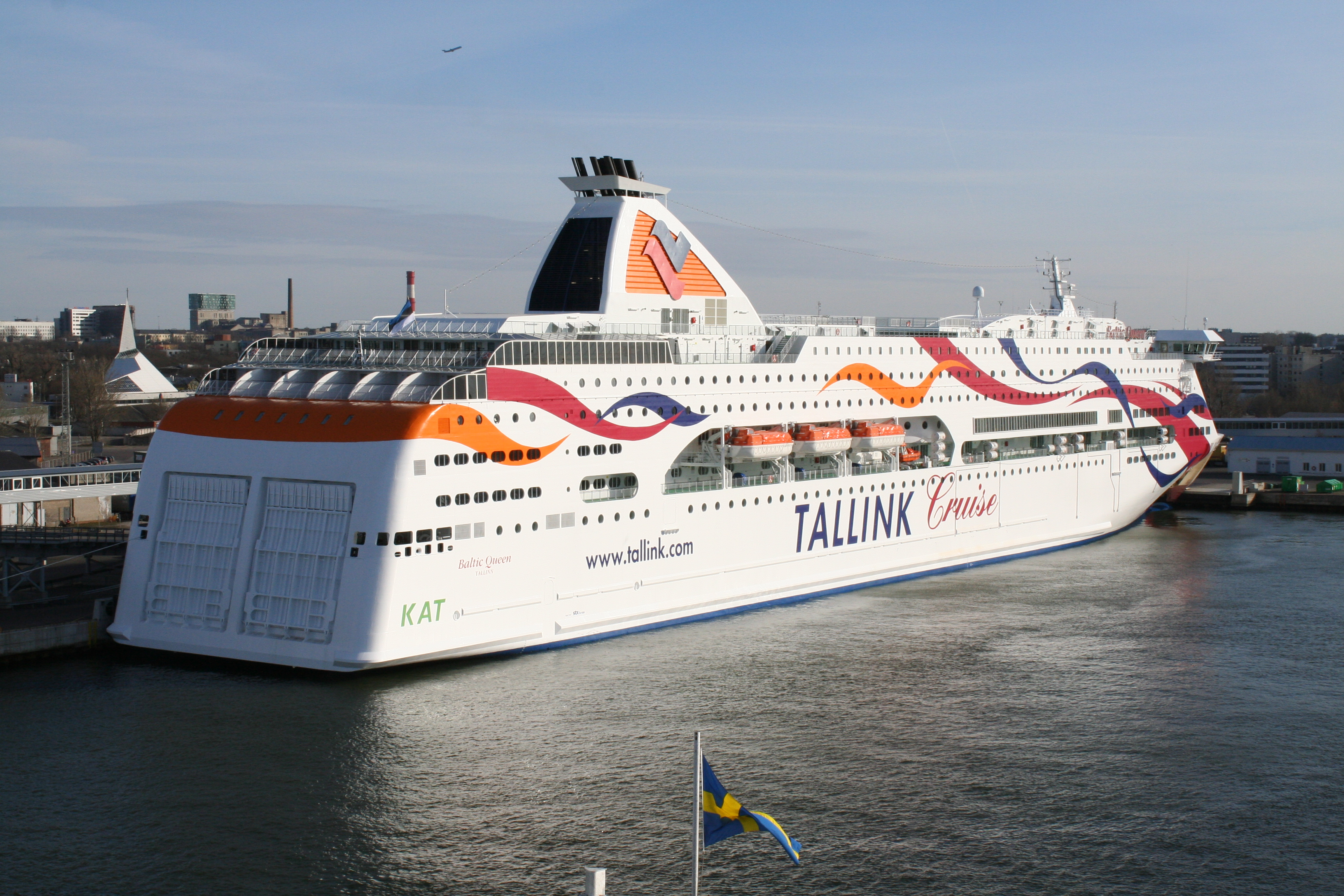 Tallink's brand-new cruiseferry MS Baltic Queen in Tallinn prior to entering service.